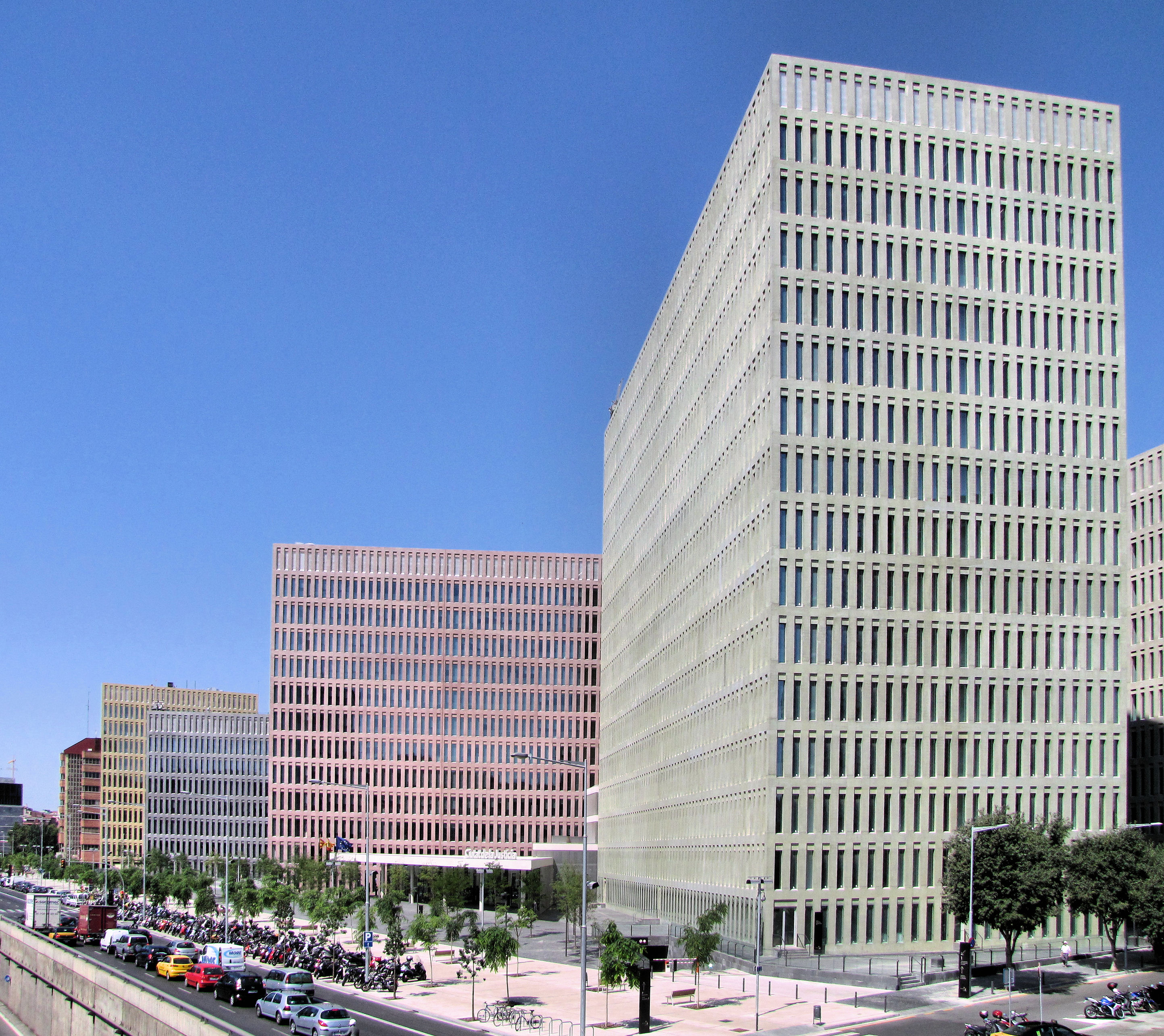 City of Justice in Barcelona by David Chipperfield Architects and b720 arquitectos. Completed in 2008, the 330.000 sqm complex serves as the judiciary center of Barcelona and l'Hospitalet.